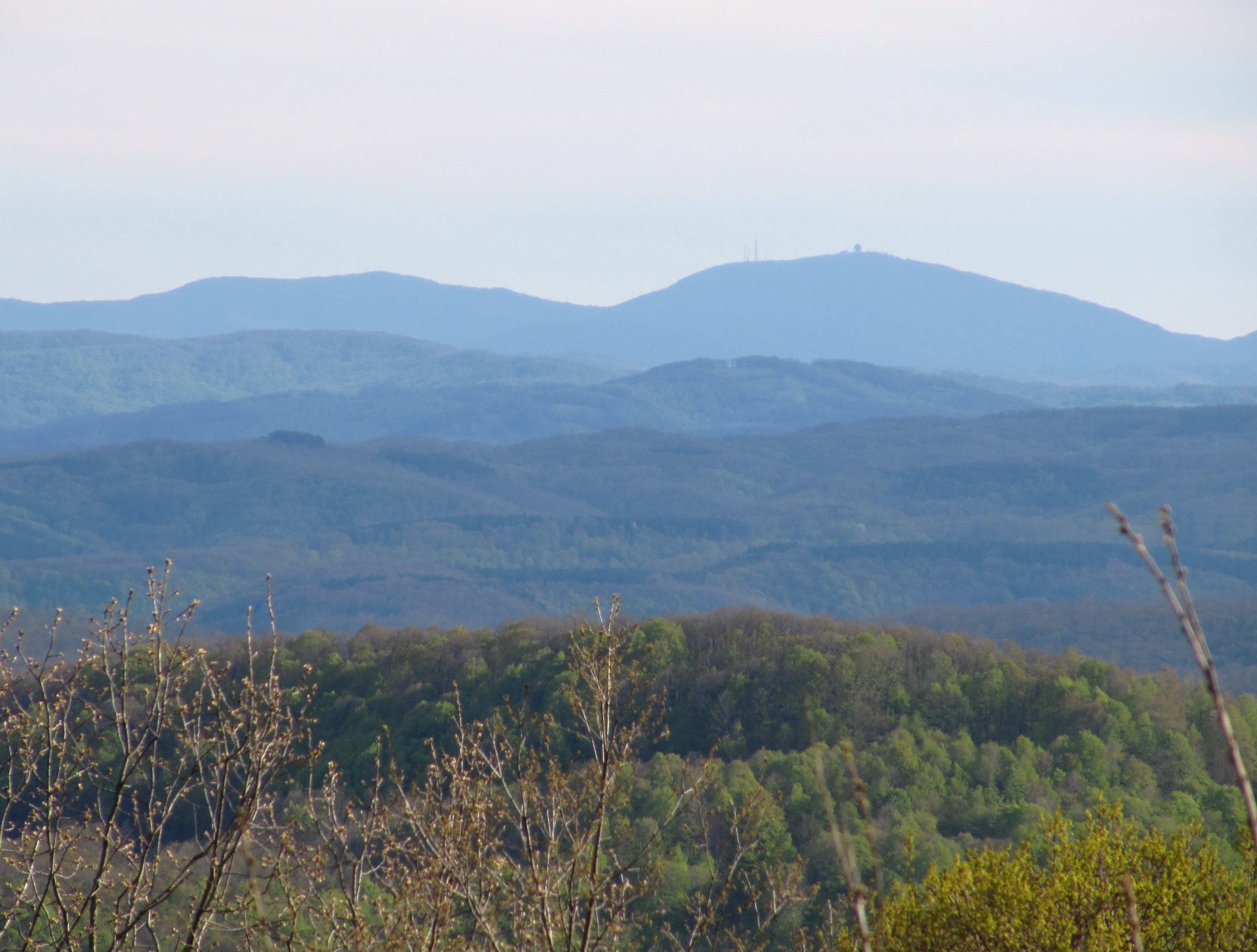 The highest peak in the Strandja / Yıldız mountains, located in Northwestern Turkey